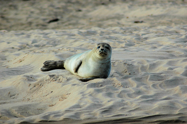 Seal At Lossiemouth Just came out to sit in the sun